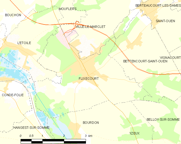 Map of French municipality Flixecourt